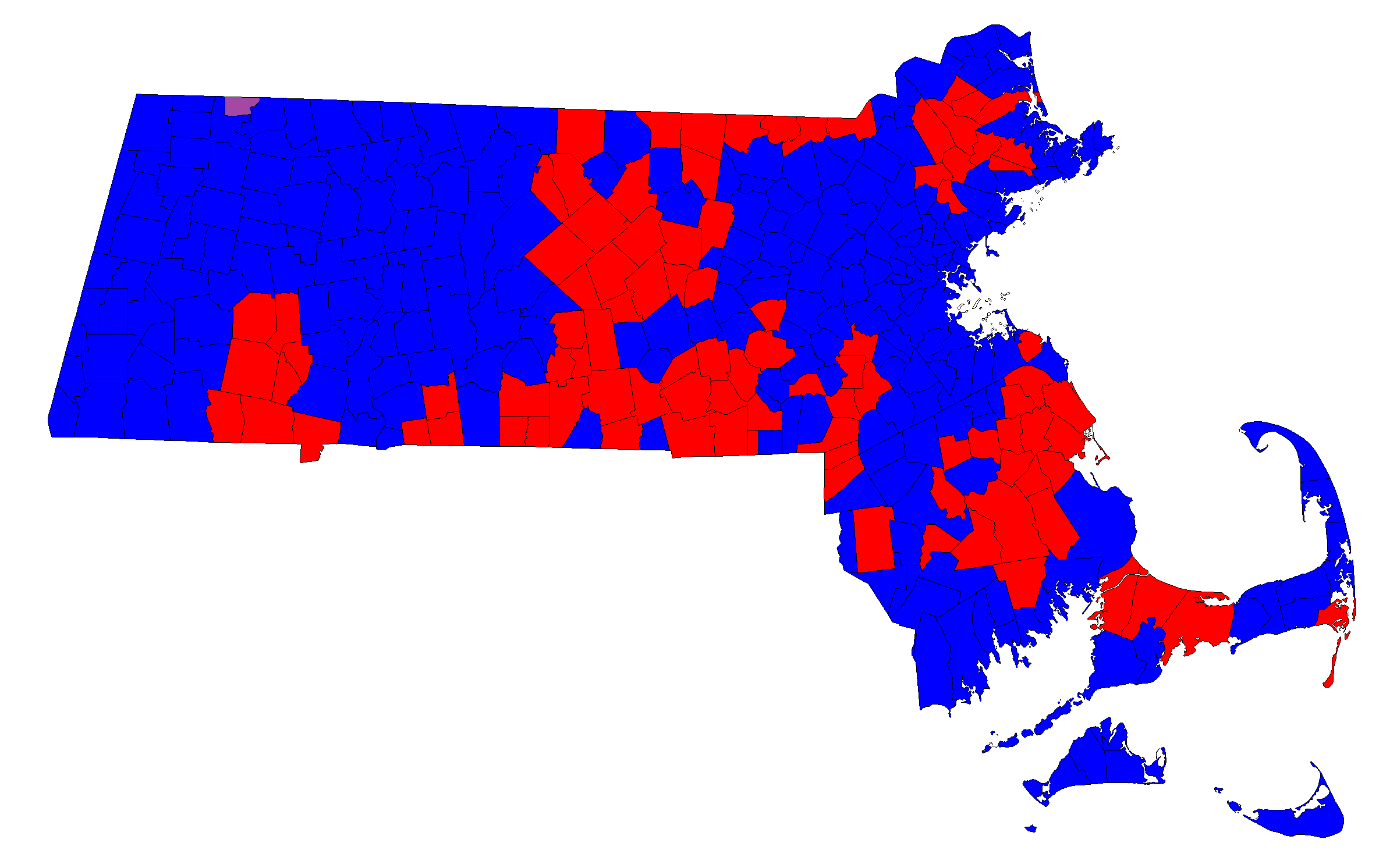 Municipal results of the 2014 United States Senate election in Massachusetts. Towns in blue won by Markey, red by Herr. Data procured at